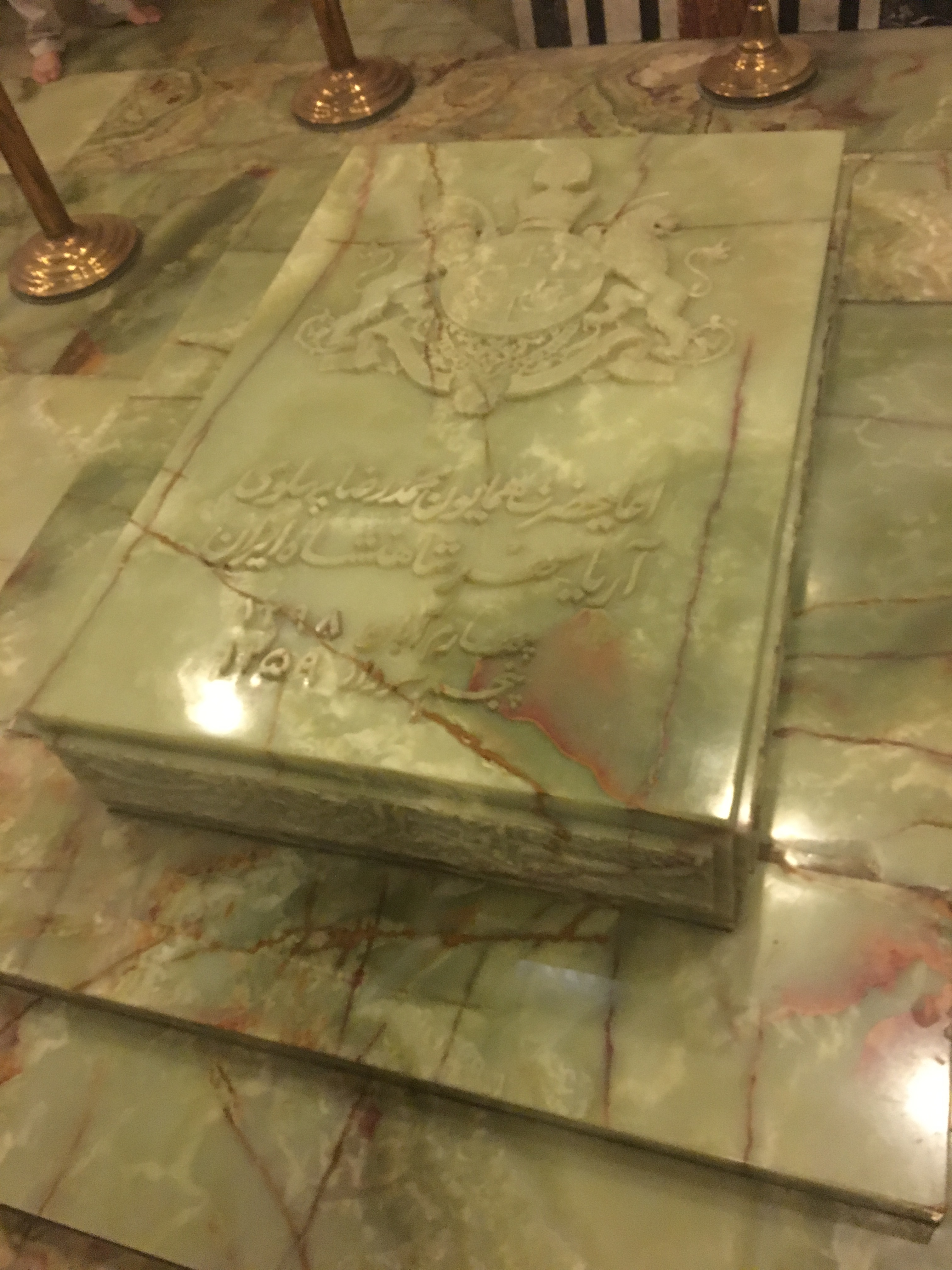 Mohammad Reza Pahlavi tomb at Al-Rifa'i Mosque in 2017, photo by Hatem Moushir